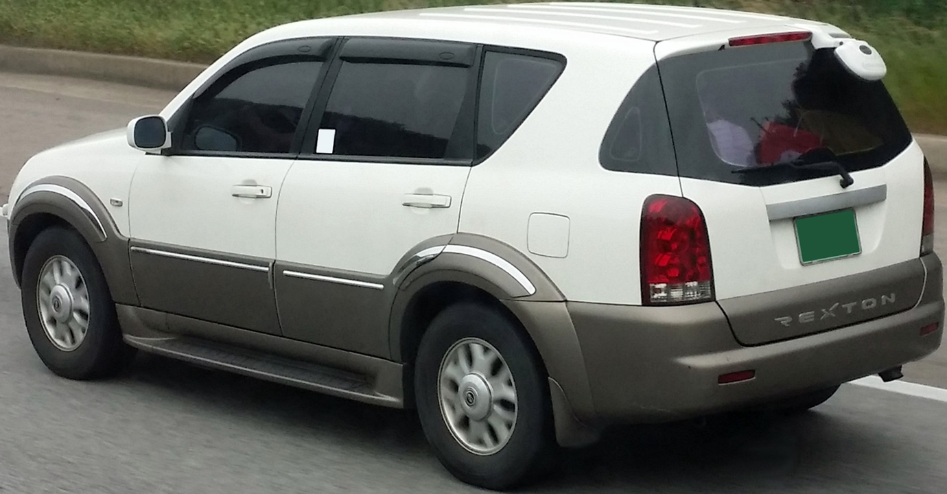 SsangYong New Rexton